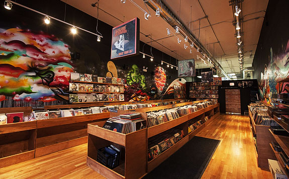 Shuga Records Storefront